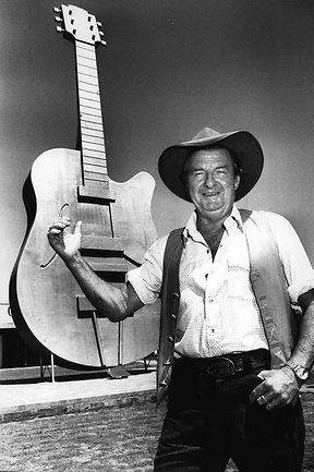 Next to the big guitar